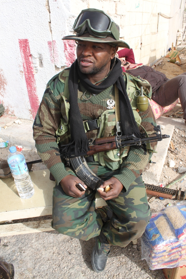 At the main checkpoint near the key, rebel-held oil town of Brega, well-armed men wearing special insignia and what appeared to be more professional gear than their fellow rebels said that they were defected "special forces" troops from Benghazi, Libya's second largest city and the heart of the uprising. The insignia indicated engineers and paratroops, and the men said they were waiting for orders from their superiors.